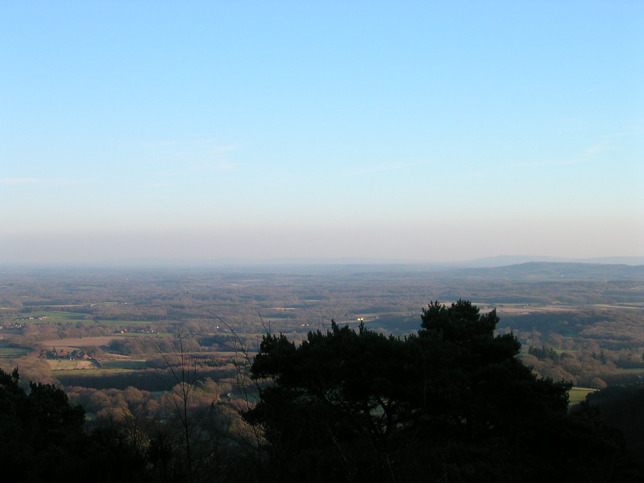 View east from Blackdown, West Sussex, England.